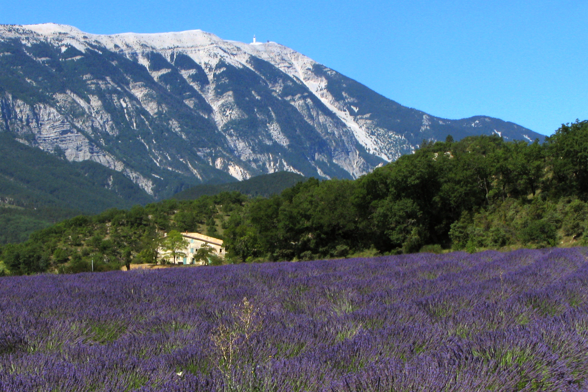 A typical Provence scenery, showing a lavender field with the Mont Ventoux in the background.